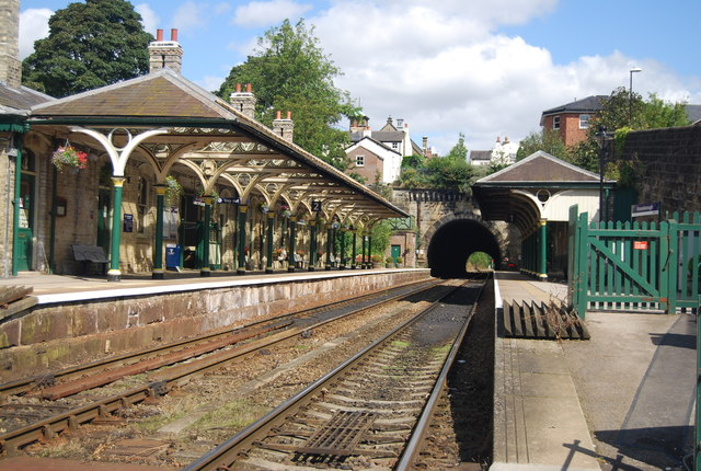 Harrogate line, Knaresborough Station